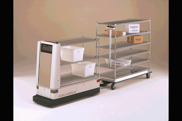 This light-weight AGV can carry totes of mail as well as a trailer. These are often used in an office environment. Courtesy of Egemin Automation Inc.